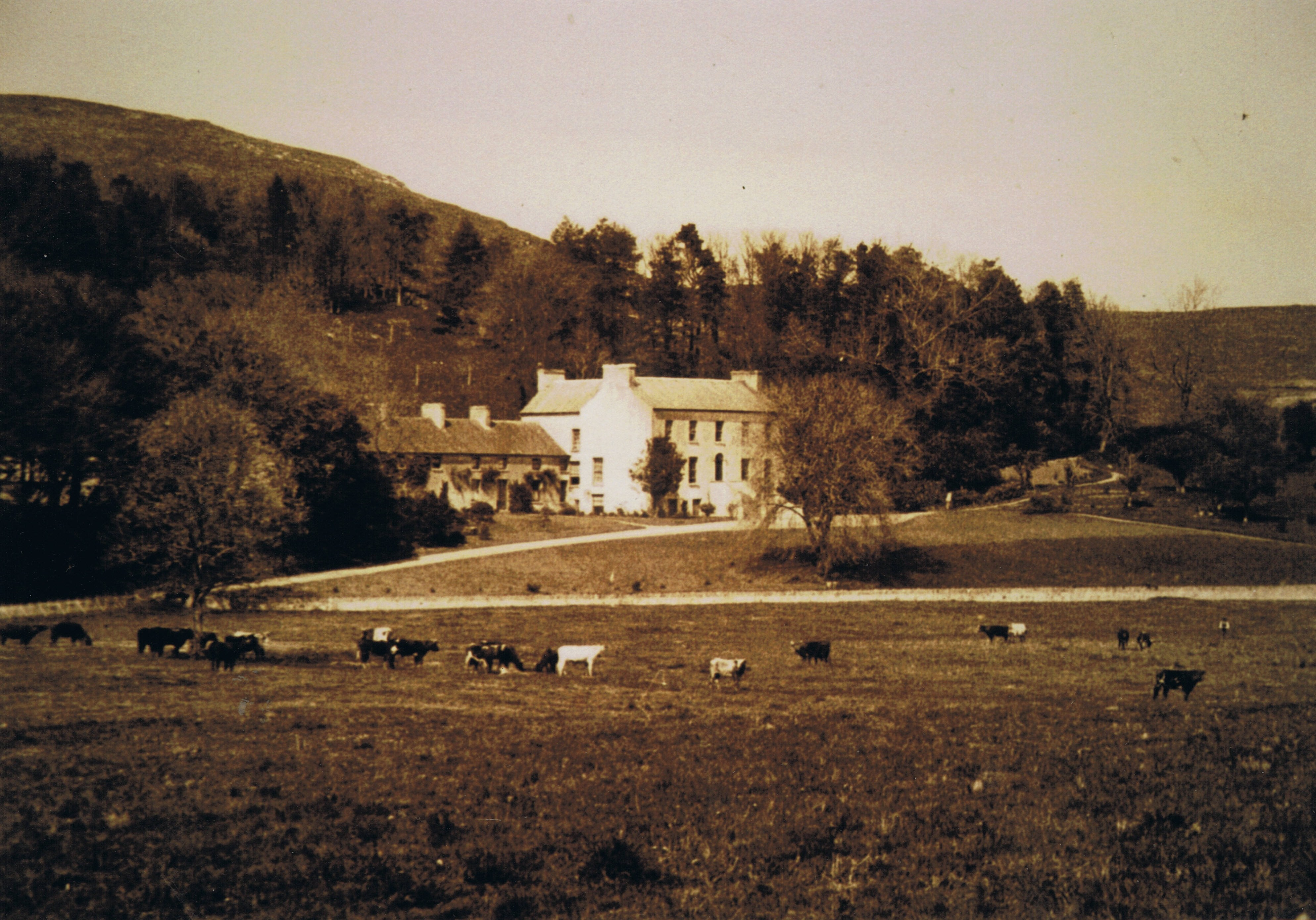 photo(by me RodolphRodolph (talk) 10:55, 11 July 2013 (UTC)) of a photo of Lough Gur House circa 1870. Other information scan of 140 year old photo by RodolphRodolph (talk) 10:55, 11 July 2013 (UTC)